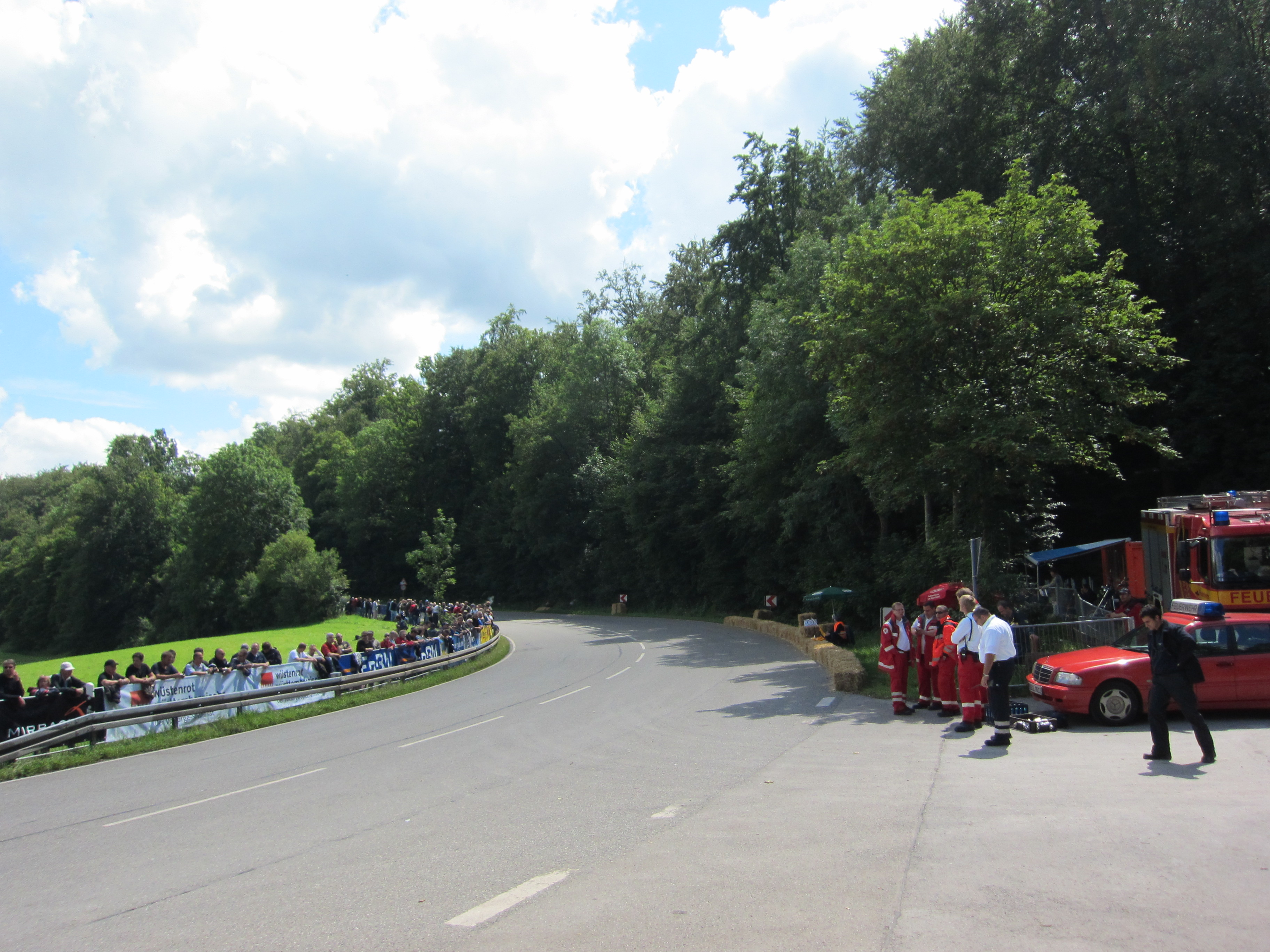 Exit of Glemseck (in the driving direction): the photo was taken during 2011's Solitude Revival